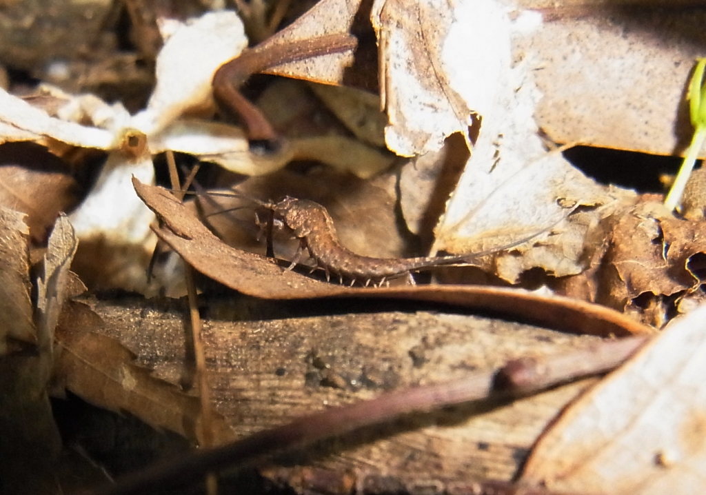 A kind of Machilidae(Archaeognatha), family Machilidae. June, 2013. Osaka, Japan.